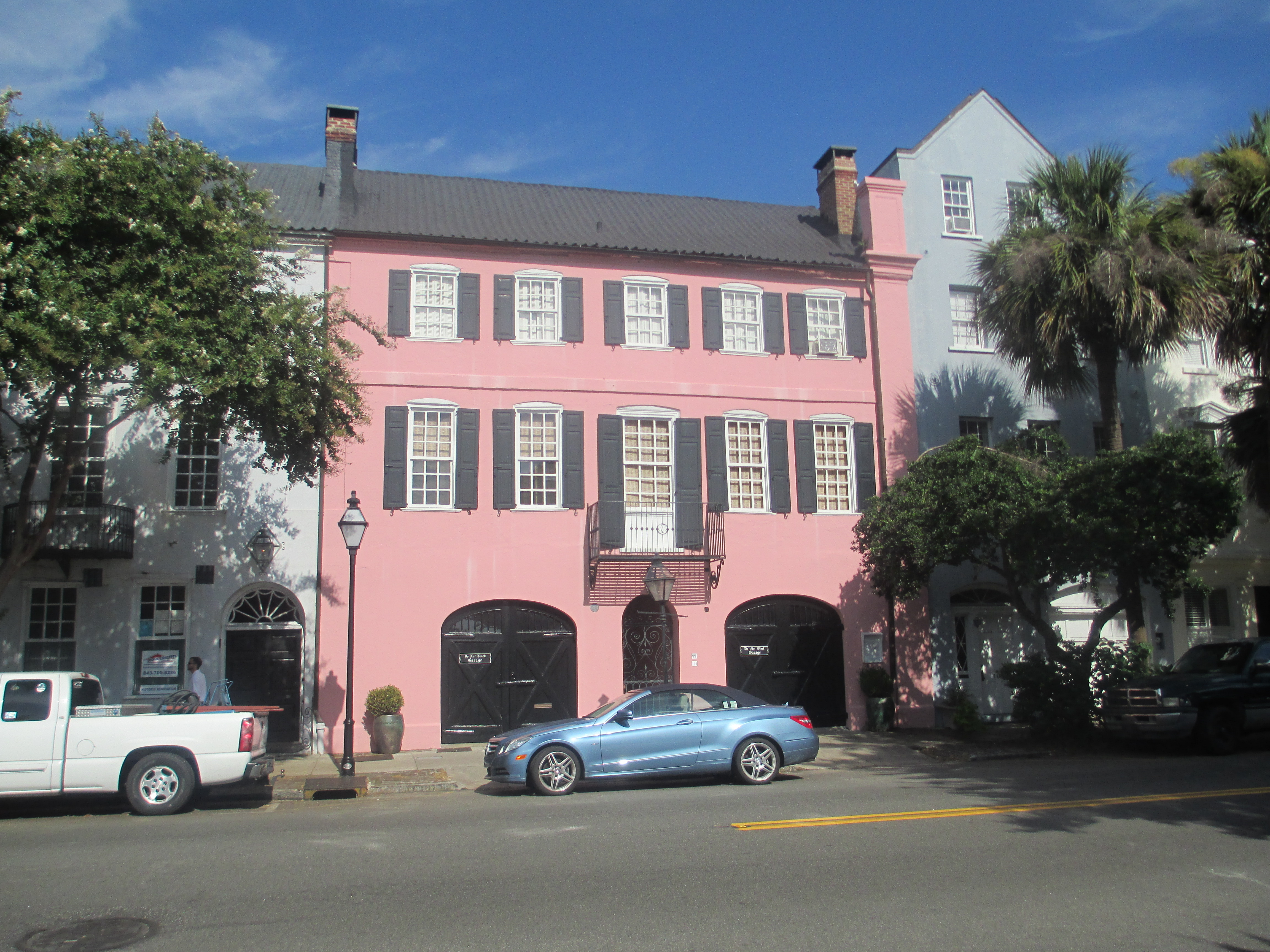 I took photo of historic home in Charleston with Canon camera.